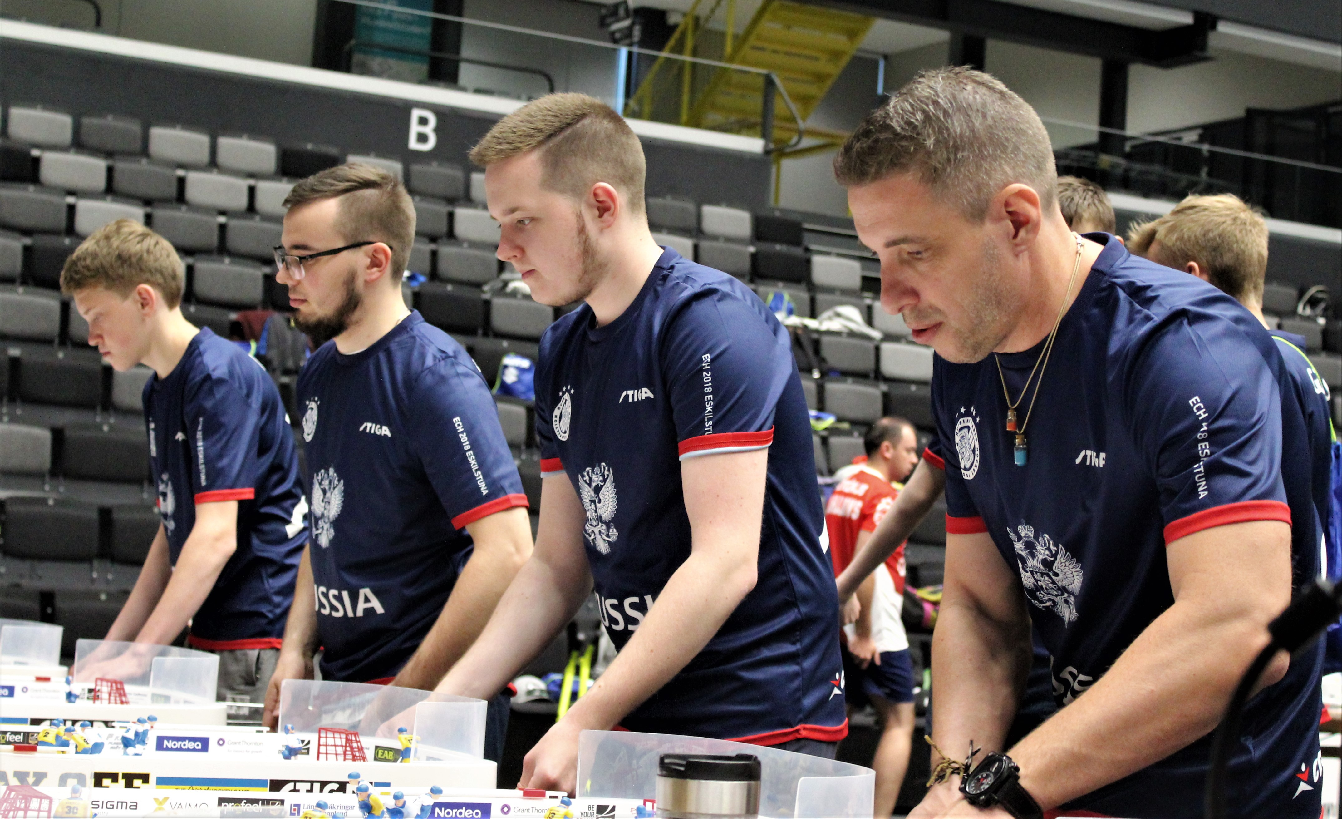 ITHF Table hockey European Championship-2018 in Eskilstuna, 4 players of Russian national team from right to left - Titov, Matveyev, Stolyarov, Ivanov